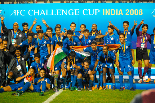 India national football team winning the AFC Challenge Cup 2008 (Courtesy )